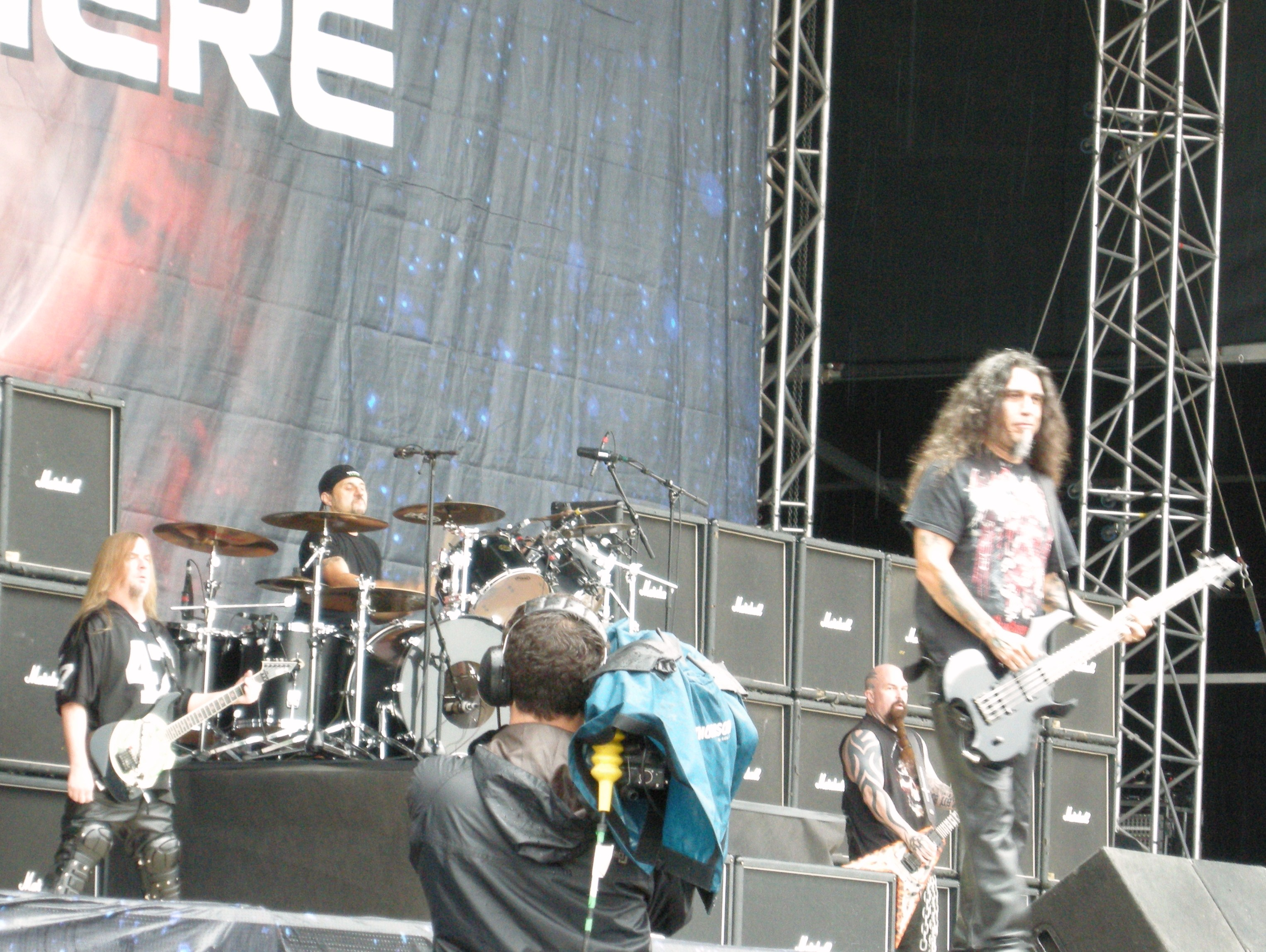 Slayer (Jeff Hanneman, Dave Lombardo, Kerry King, Tom Araya) at Sonisphere Festival, Stockholm Sweden 2010